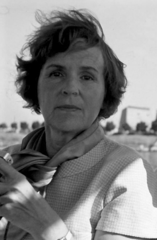 Ilona Harima on the Nile at Luxor, Egypt